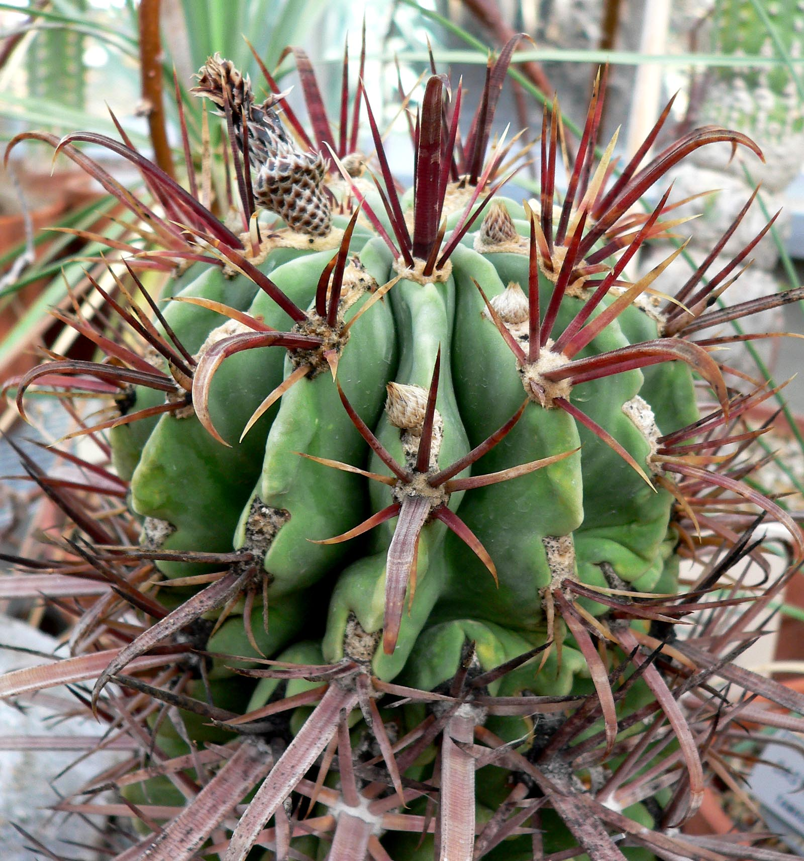 Photo of Ferocactus recurvus at the University of California Botanical Garden